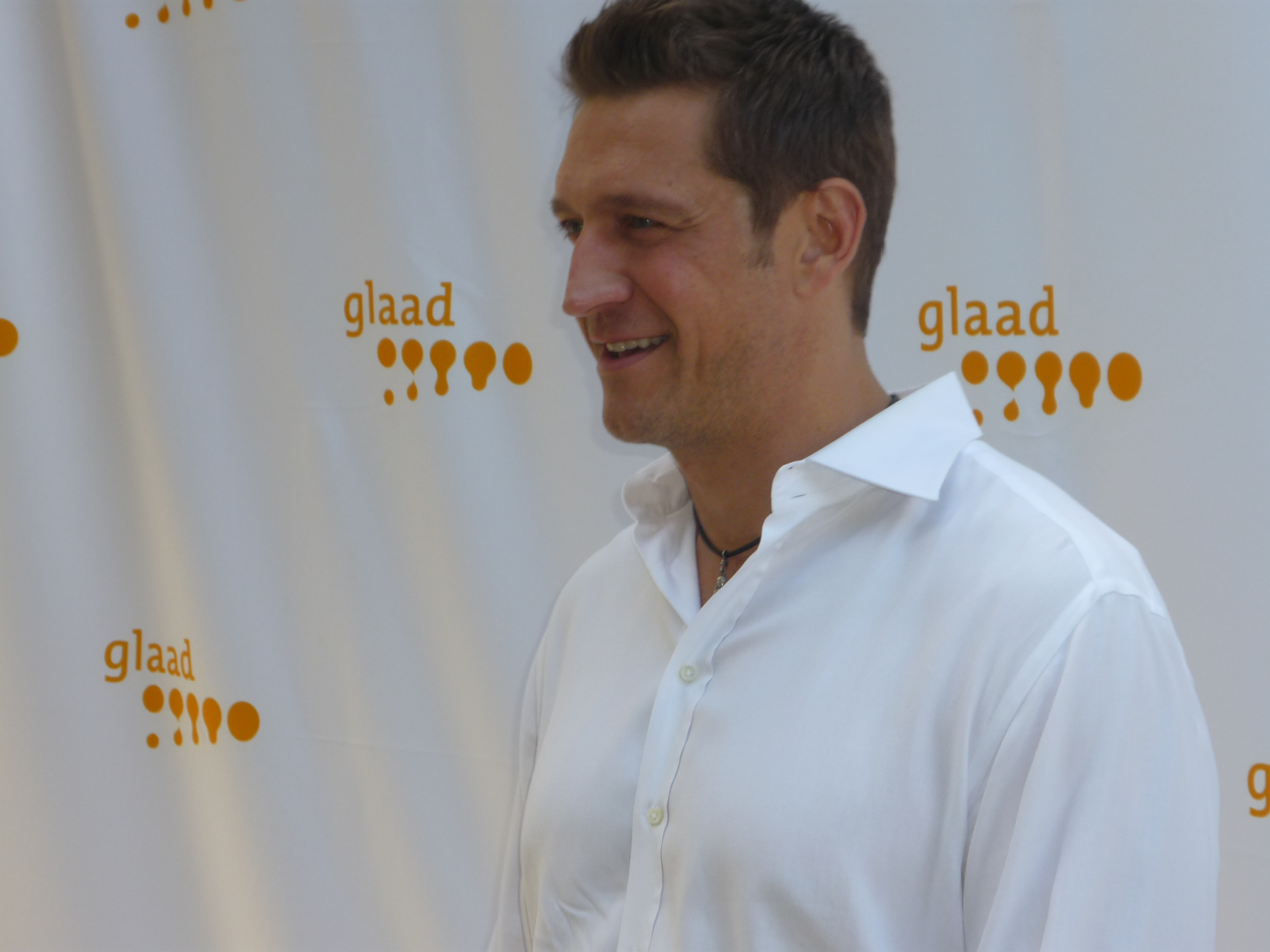 American actor Robert Gant at a GLAAD summer event.